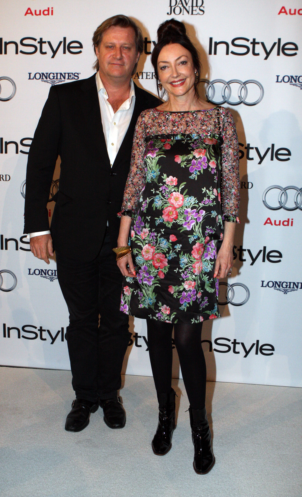 Leona Edmiston with Jeremy Decker